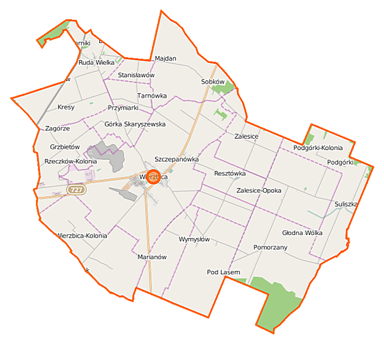 Map of Gmina Wierzbica, Poland This map of Wierzbica (gmina w województwie mazowieckim) was created from OpenStreetMap project data, collected by the community. This map may be incomplete, and may contain errors. Don't rely solely on it for navigation. Border coordinates51.309220.9962←↕→21.204351.1927